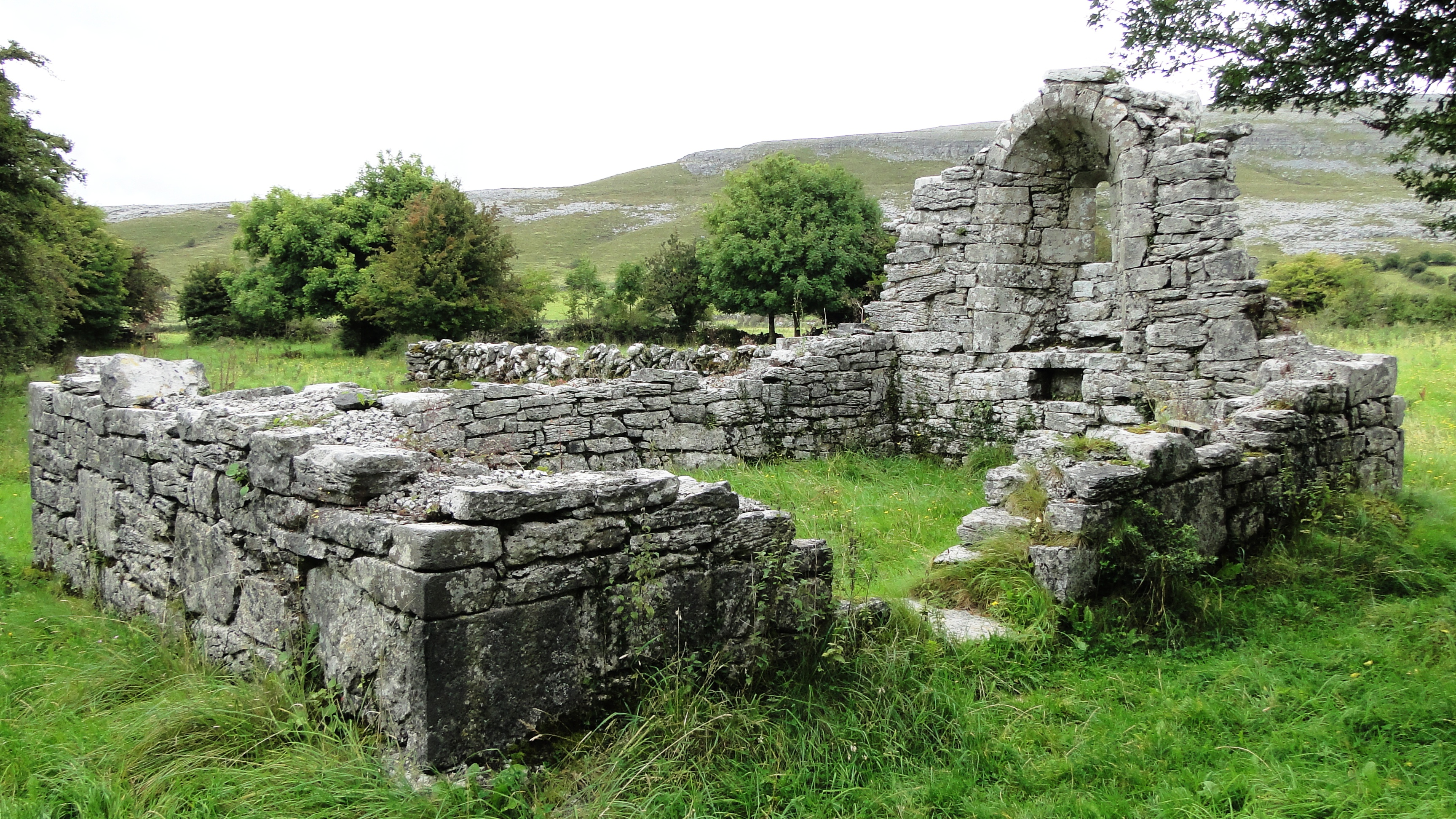 The smallest of the three early medieval Oughtmama churches, County Clare, Ireland